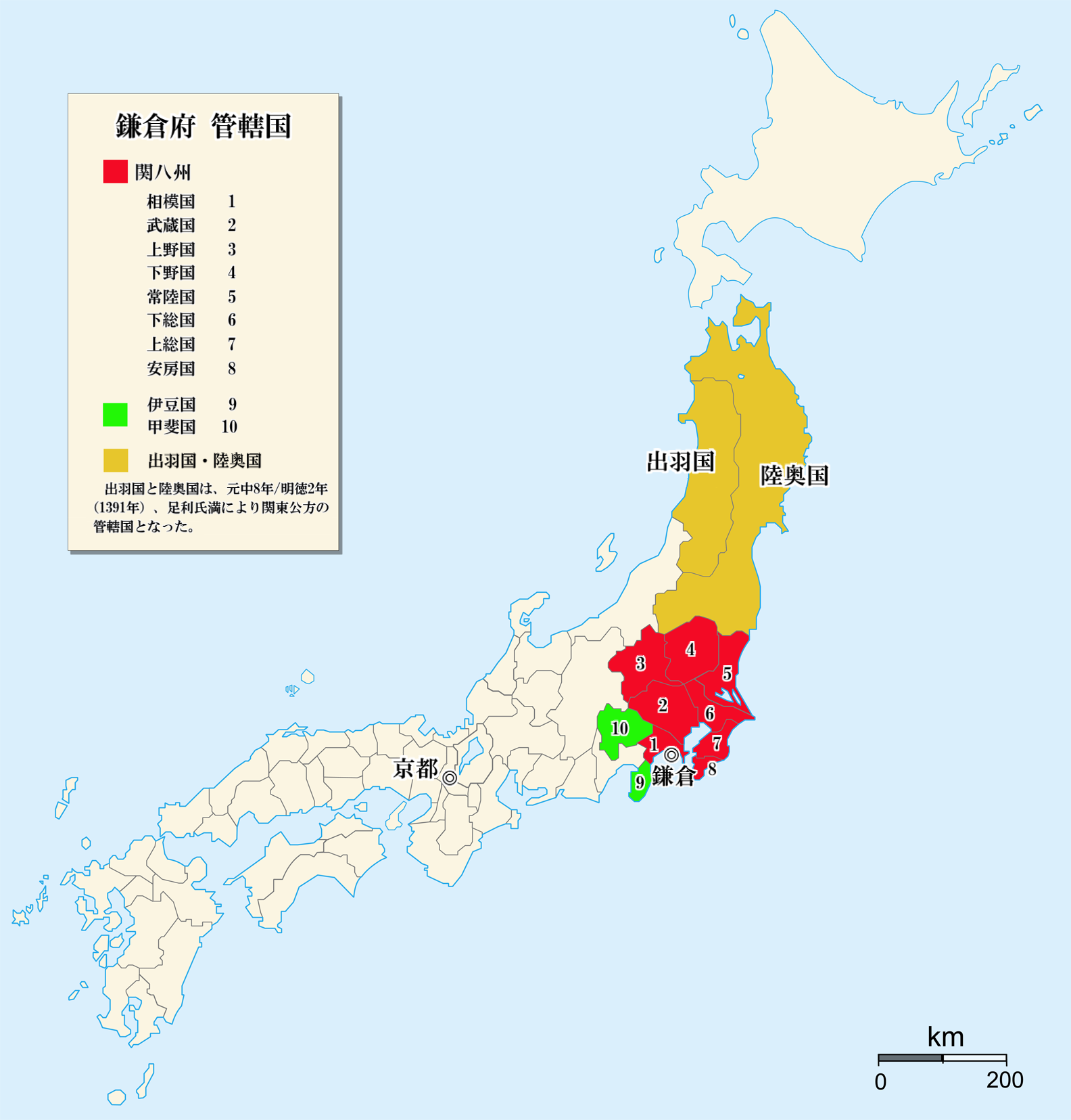 A map of the Kamakura-fu in 1391